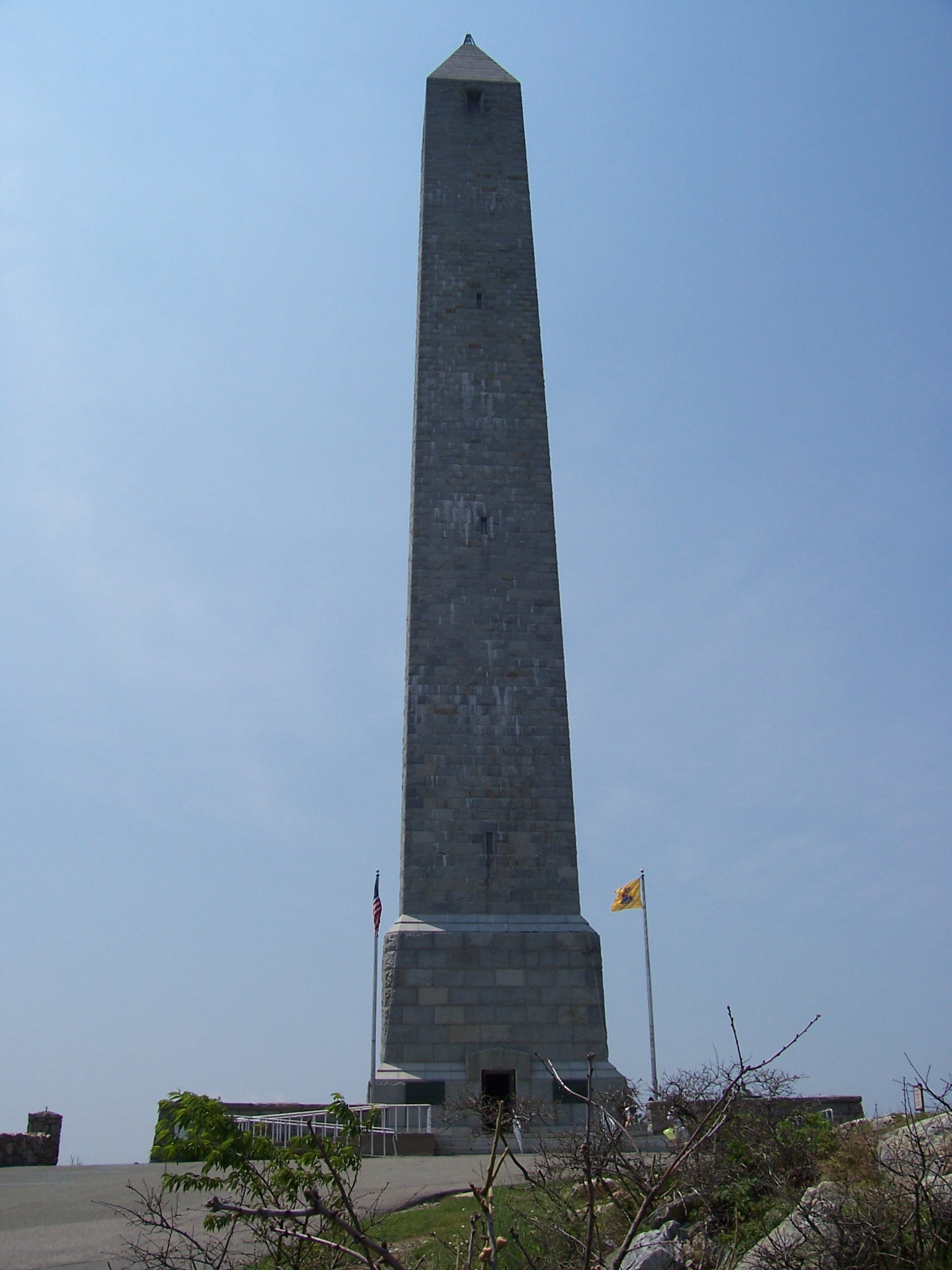 The monument located in High Point State Park. The monument was built to honor war veterans, through the generosity of the Kusers. Construction began in 1928 and completed in 1930. At the top of the 220-foot structure, observers have a spectacular view of the ridges of the Pocono Mountains toward the west, the Catskill Mountains to the north and the Wallkill River Valley in the southeast. At the top of New Jersey's tallest knob, the Monument is an obelisk monument similar to other war monuments, such as the one located on Bunker Hill in Massachusetts.